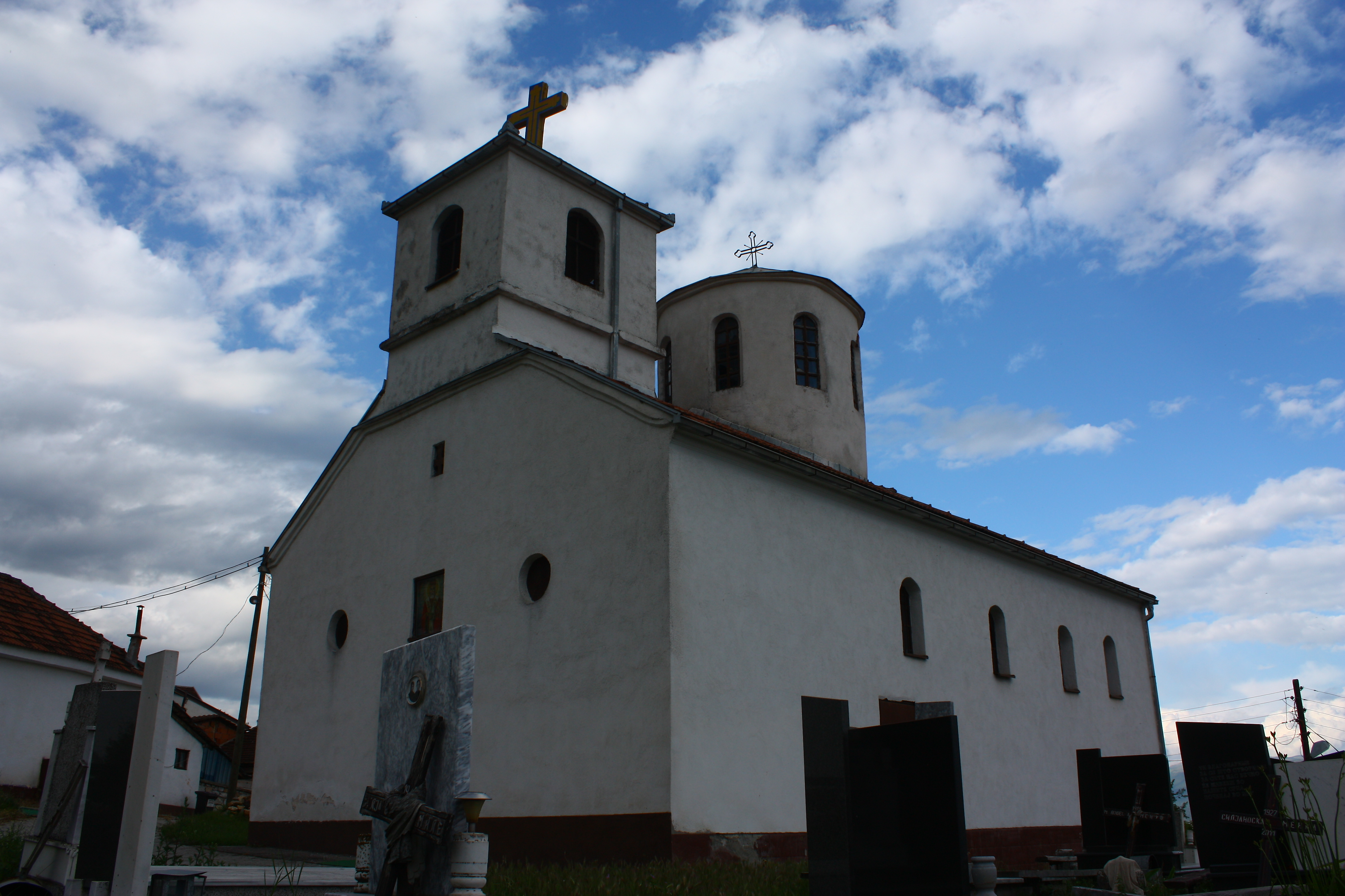 St. Nicholas Church in Galate, Macedonia